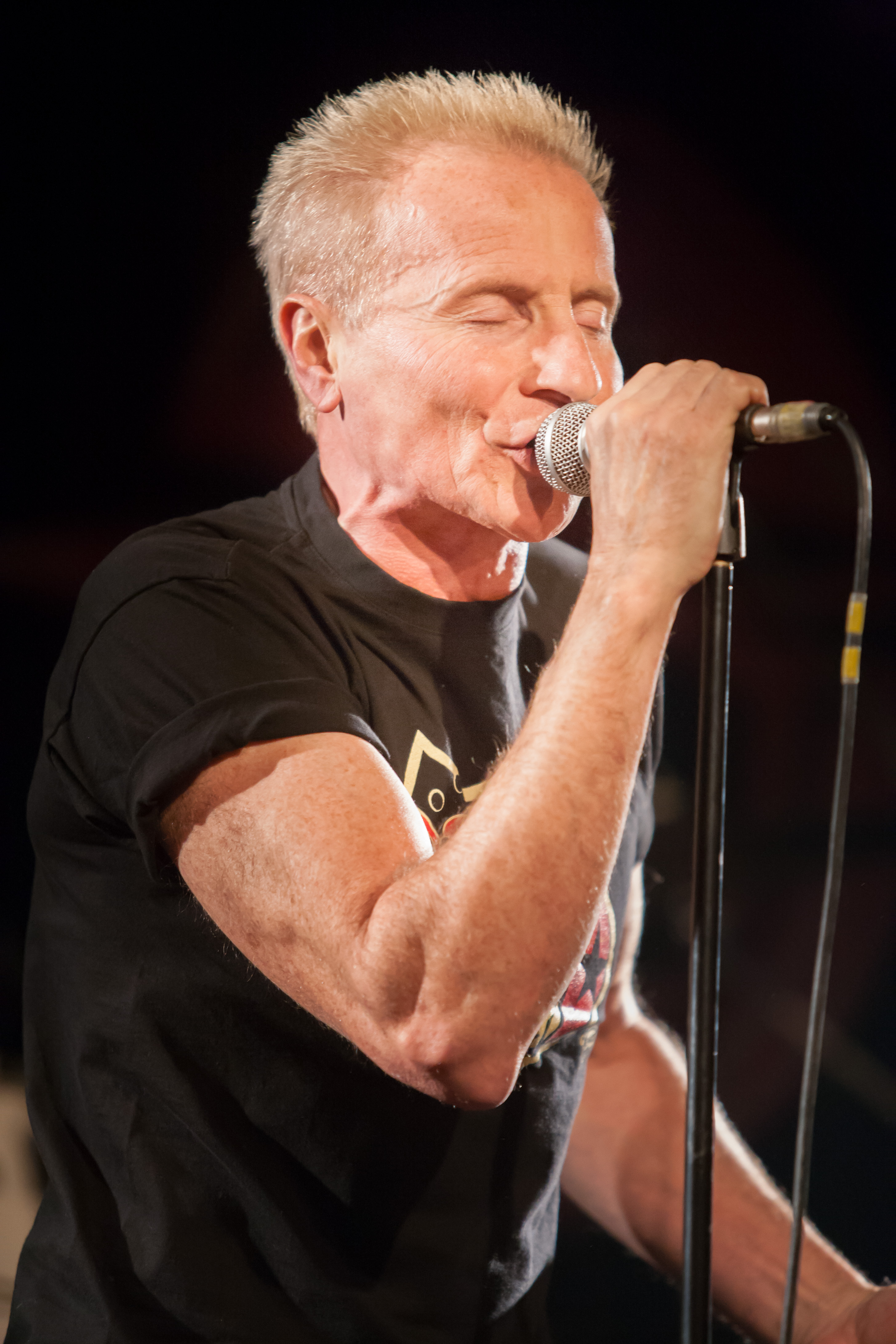 Phil Mogg, on stage at a concert of UFO at music club “Kantine” in Cologne